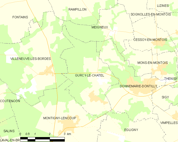 Map of French municipality Gurcy-le-Châtel